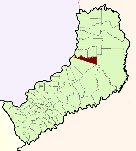 Map showing municipio of Puerto Piray in Misiones Province, Argentina. The big point is Puerto Piray town, the others are Villa Parodi town (left) and Piray Kilómetro 18 town (right)